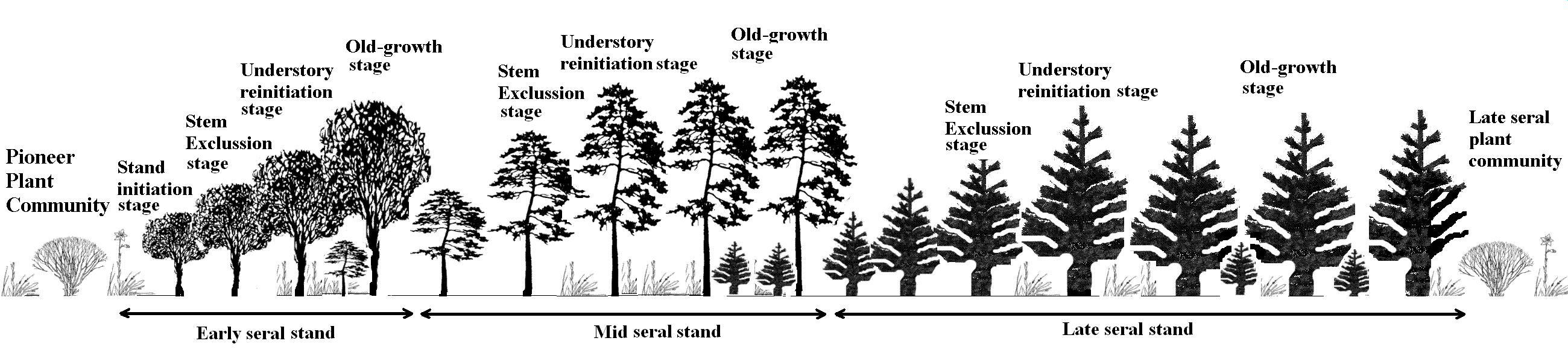 Stand dynamics stages during succession